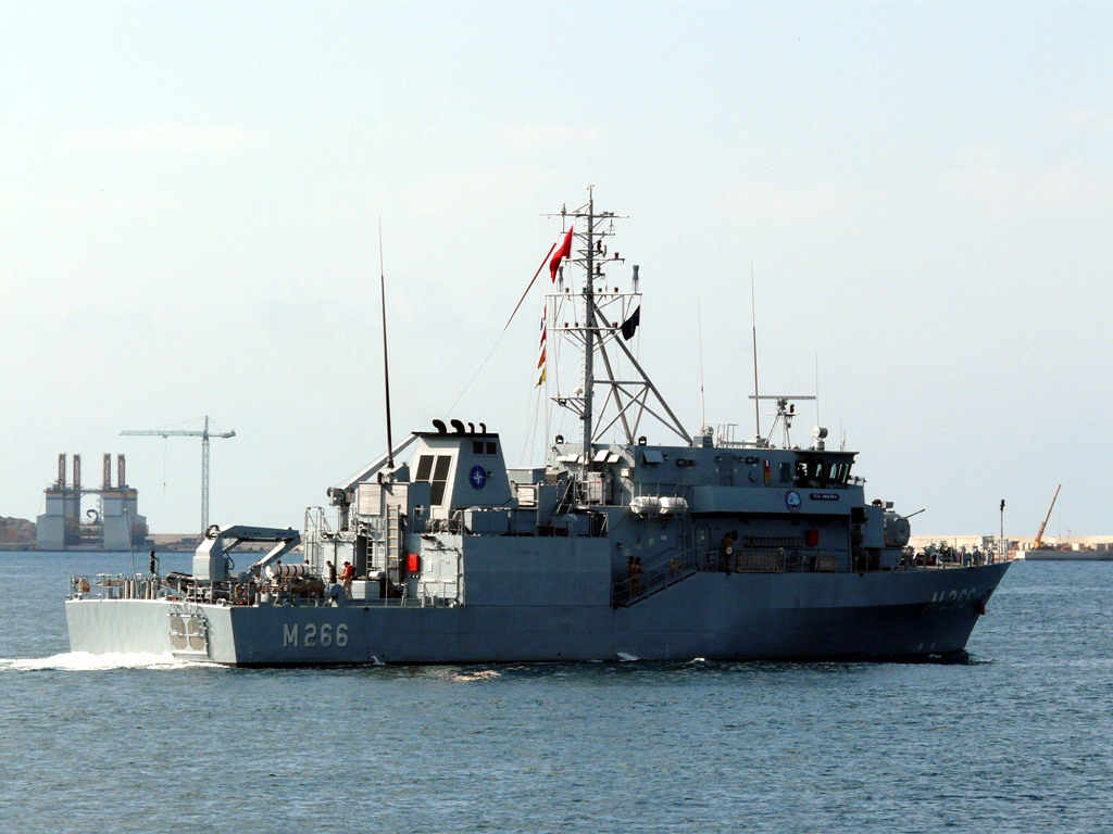 Turkish minehunter M-266 Amasra